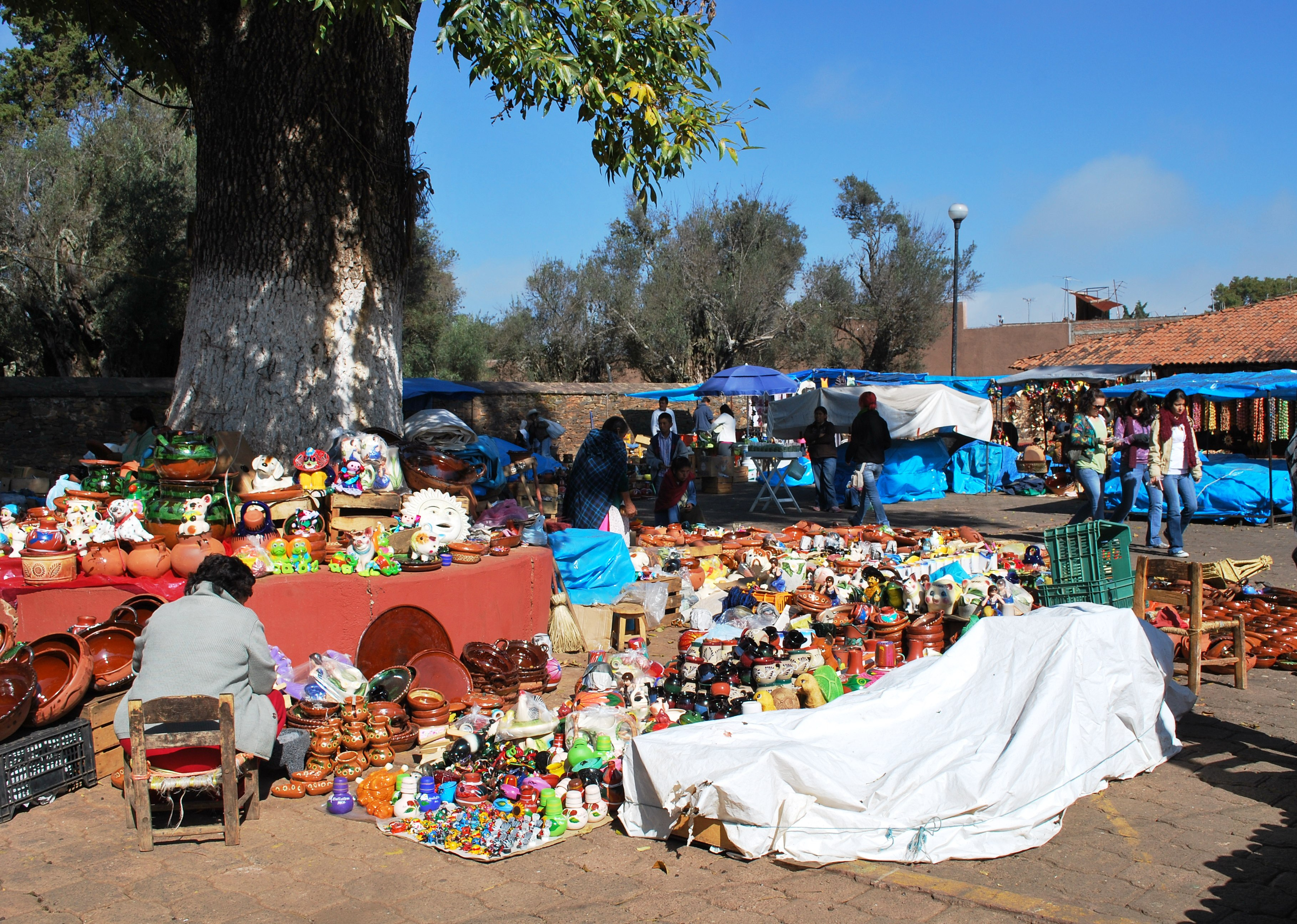 Selling crafts just outside the entrance to the Church and ex monastery of San Francisco — in Tzintzuntzan, Michoacán.